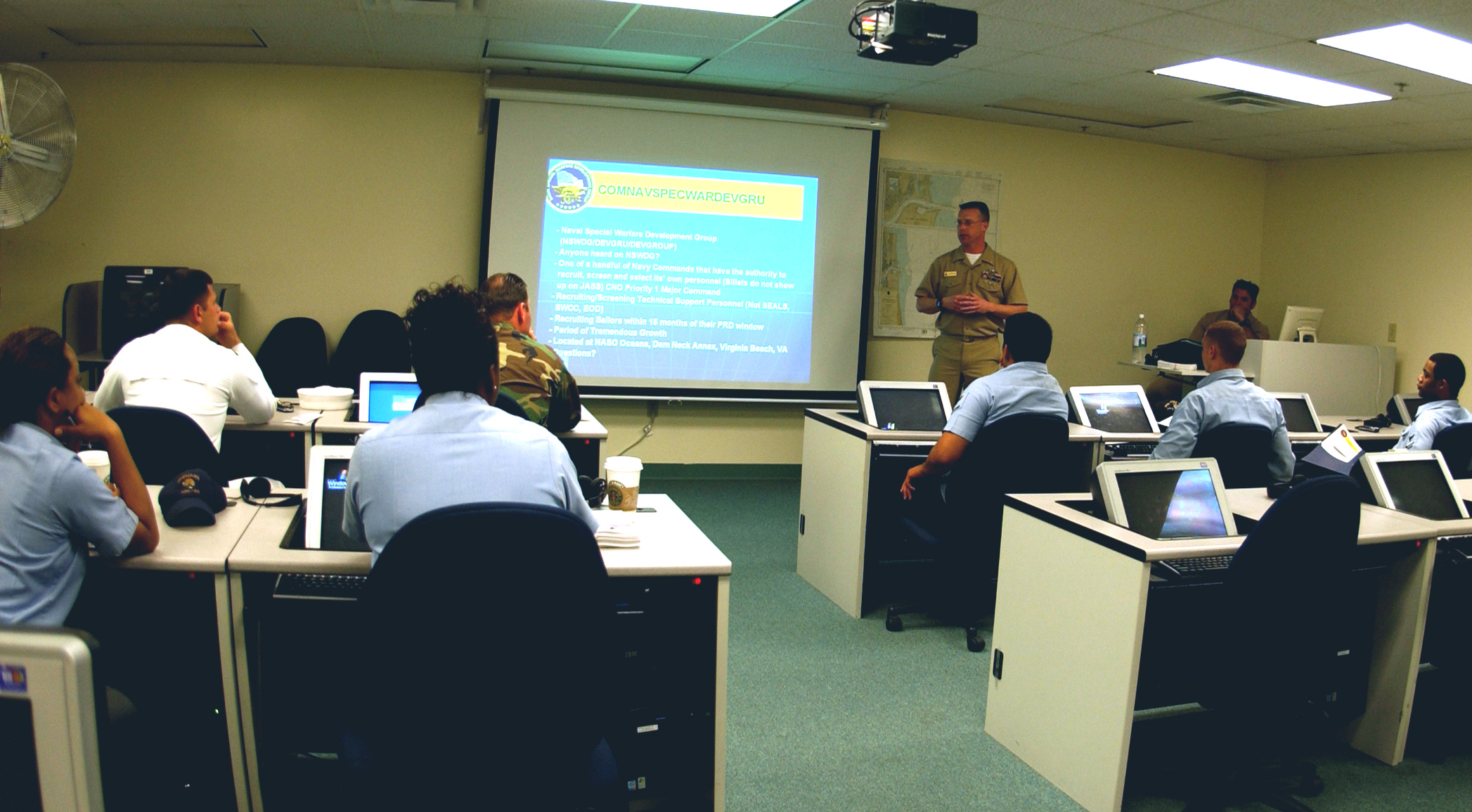 MAYPORT, Fla. (March 27, 2007) - Chief Yeoman Toby Messenger, special program recruiter for Naval Special Warfare Development Group, speaks to Sailors during the Career Management Symposium at Naval Station Mayport. The four-day symposium held at Naval Station Mayport and Naval Air Station Jacksonville will provide Sailors with advice on career direction, development and opportunity. There were many full time support (FTS) detailers who came to speak with Sailors and discuss potential career opportunities. U.S. Navy photo by Mass Communication Specialist Lynn Friant (RELEASED)